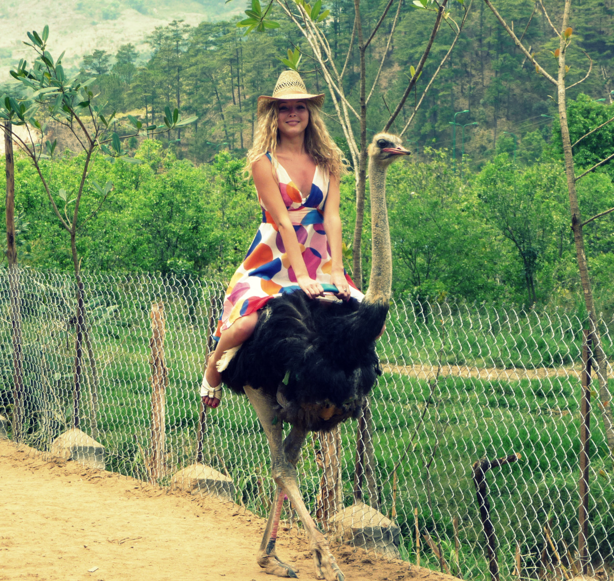 Russian Girl rides a Ostrich in Vietnam